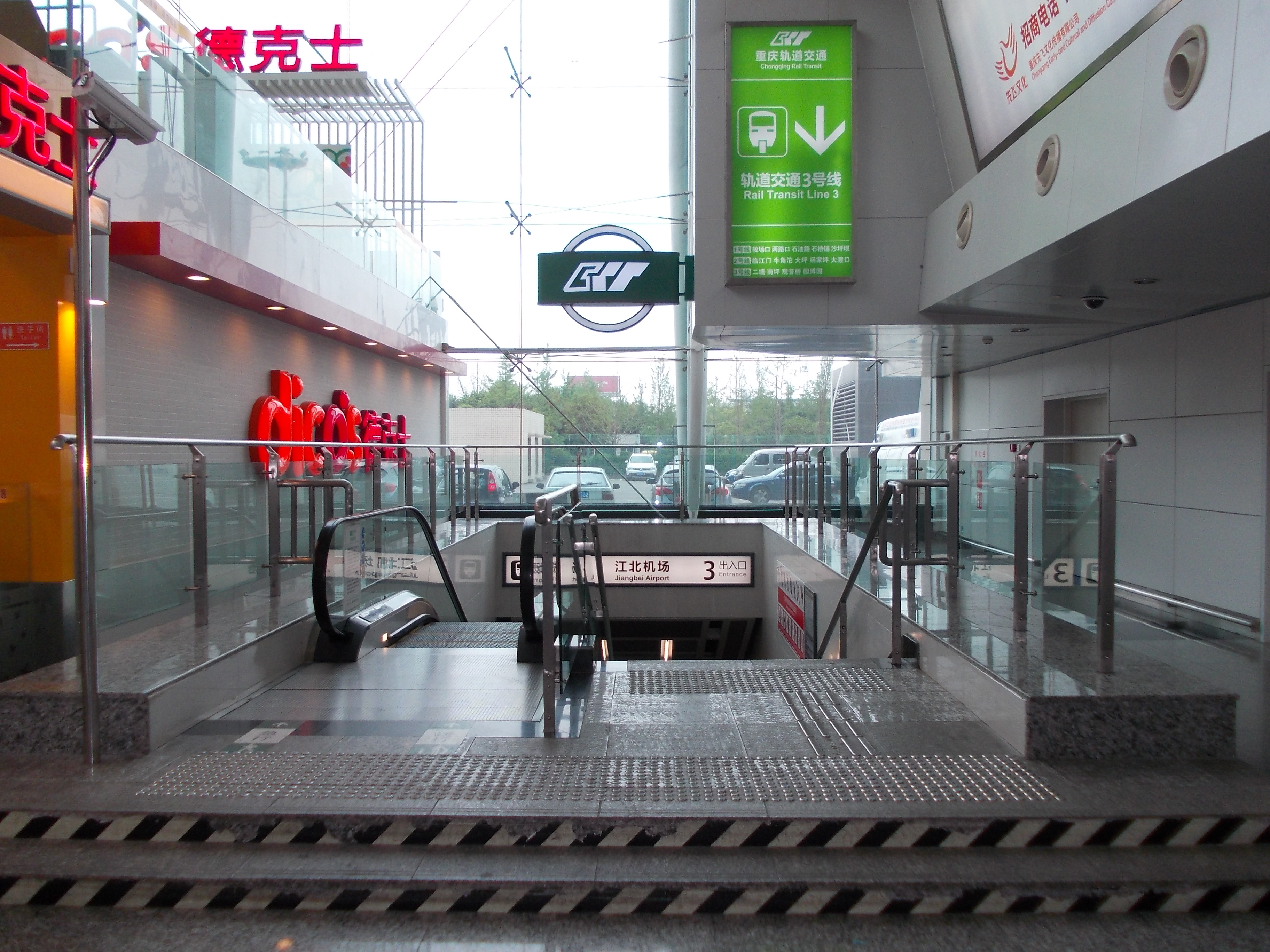 Chongqing Rail Transit - Jiangbei Airport - Exit 3